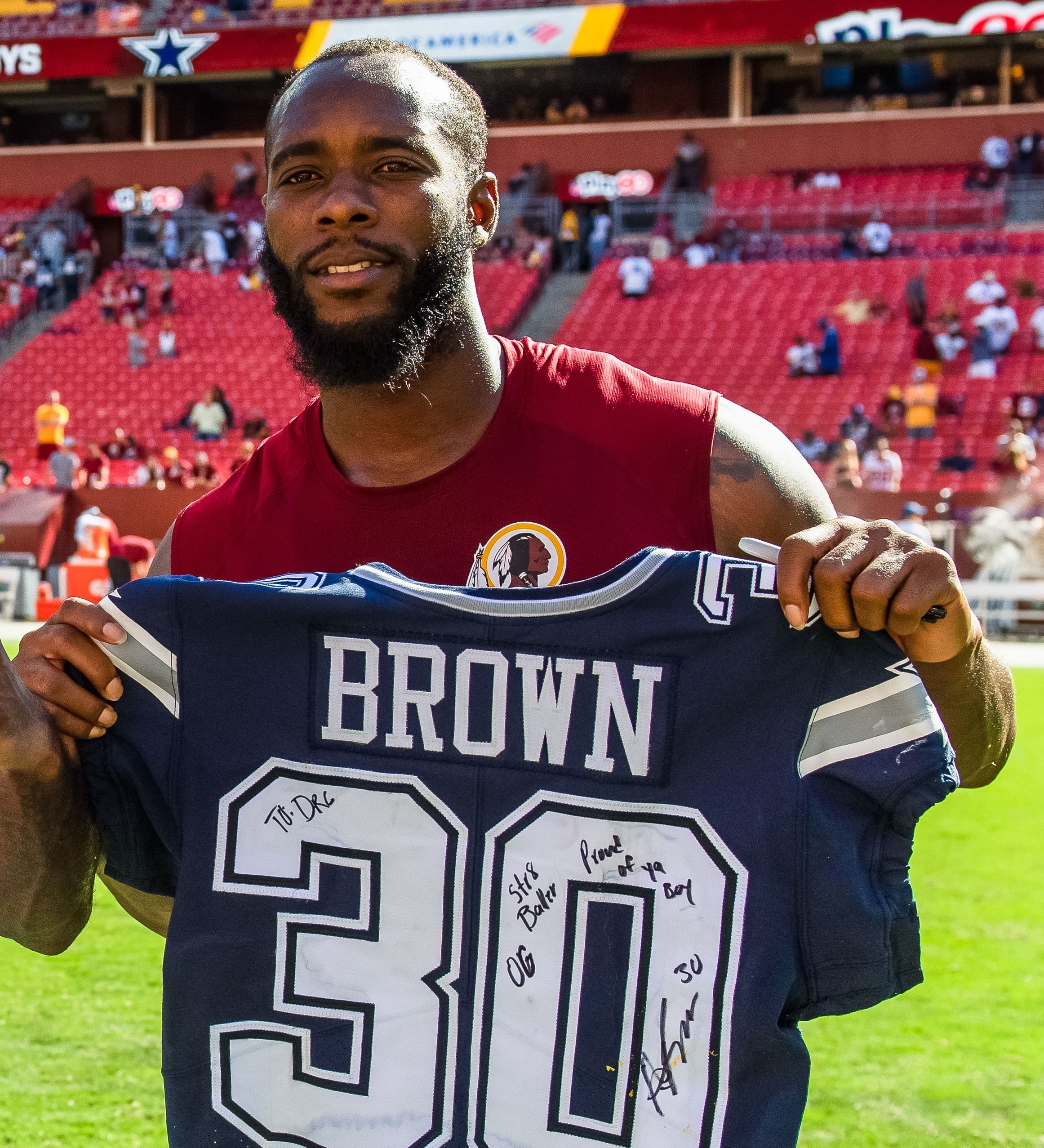 Anthony Brown and Dominique Rodgers Cromartie in 2019